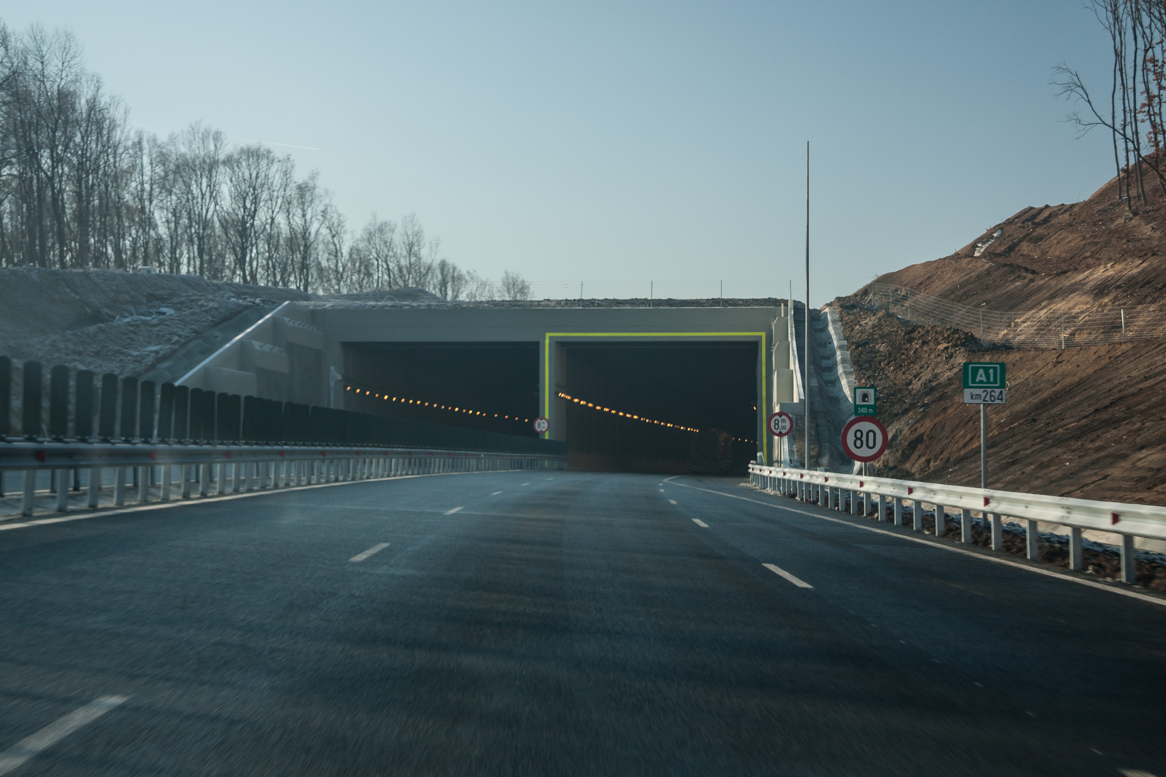 Săcel tunnel east entrance